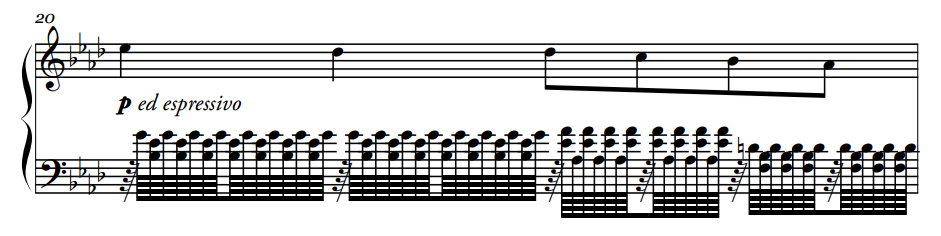 Excerpt from the first piece in the Trois grandes études, composed by by Charles-Valentin Alkan